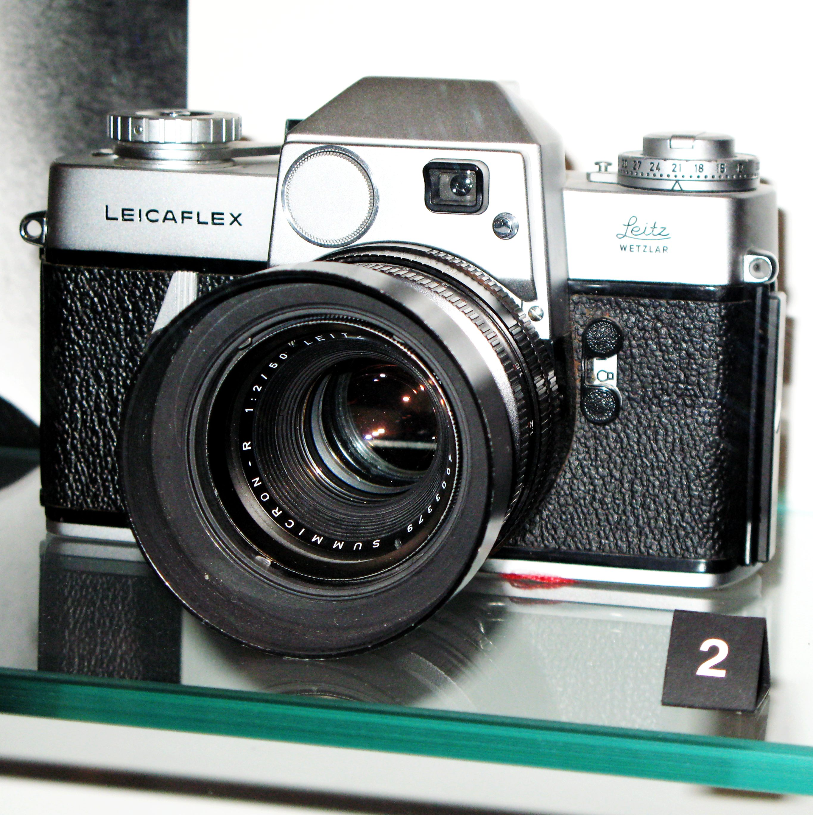 Leicaflex on display at Vevey camera museum